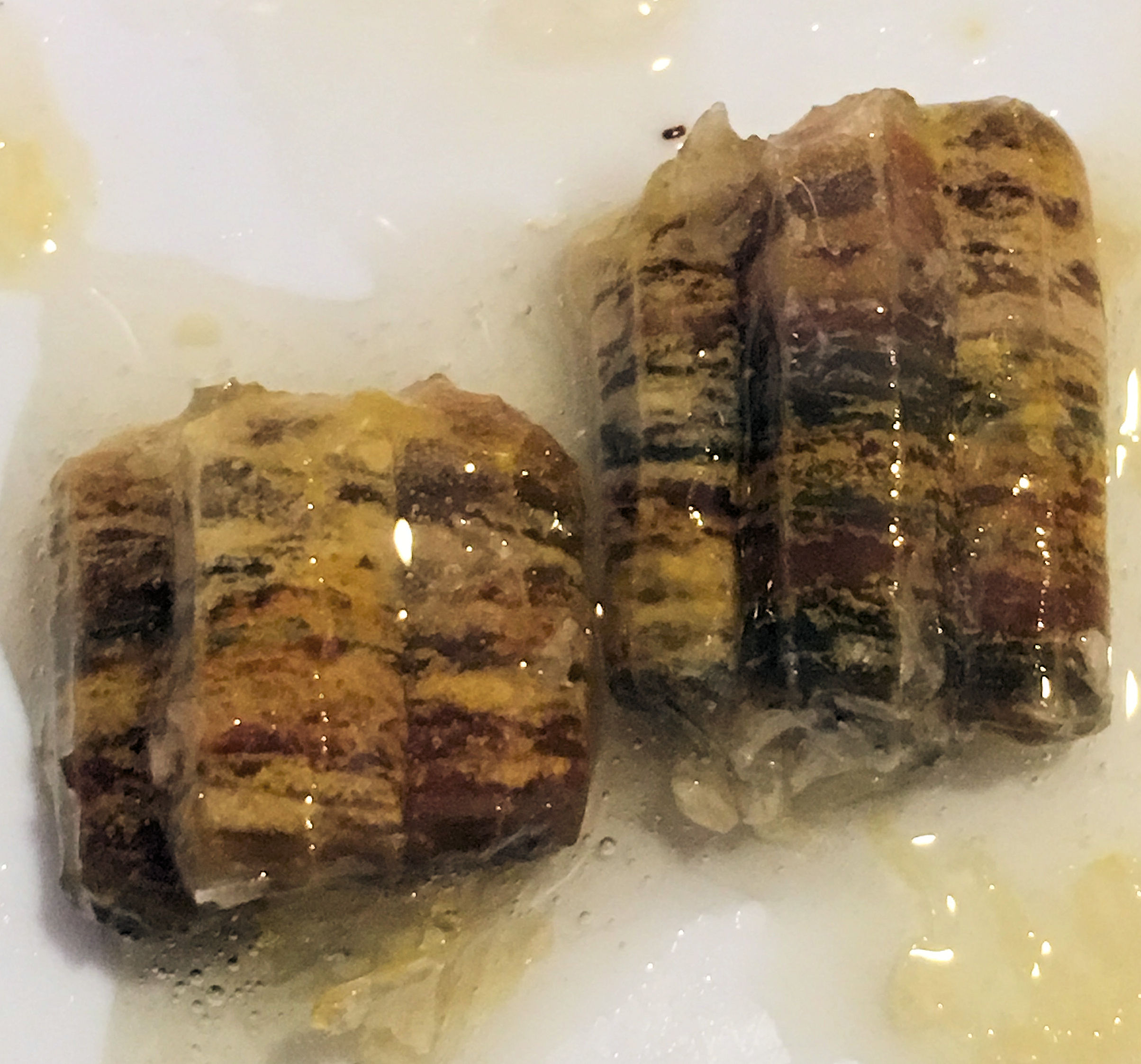 From a group of bee pollen cells, that have been vertically dissected from the comb. Shows the packing of different types of pollen in the cells over time.